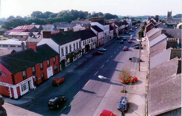 Market Street near to Ardee, County Louth, Ireland. View north along Market Street, from the battlements of Ardee Castle.